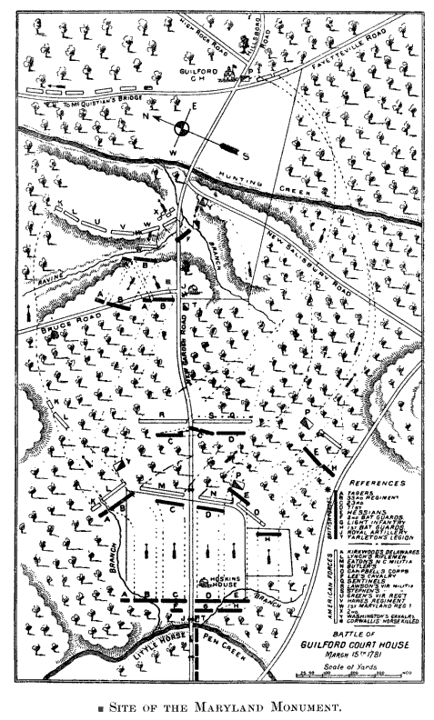 Map of the battlefield at Guilford Court House, from "A Memorial Volume of the Guilford Battle Ground," Guilford Battleground Company, published by Reece & Elam, Power Job Printers, Greensboro, North Carolina, 1893